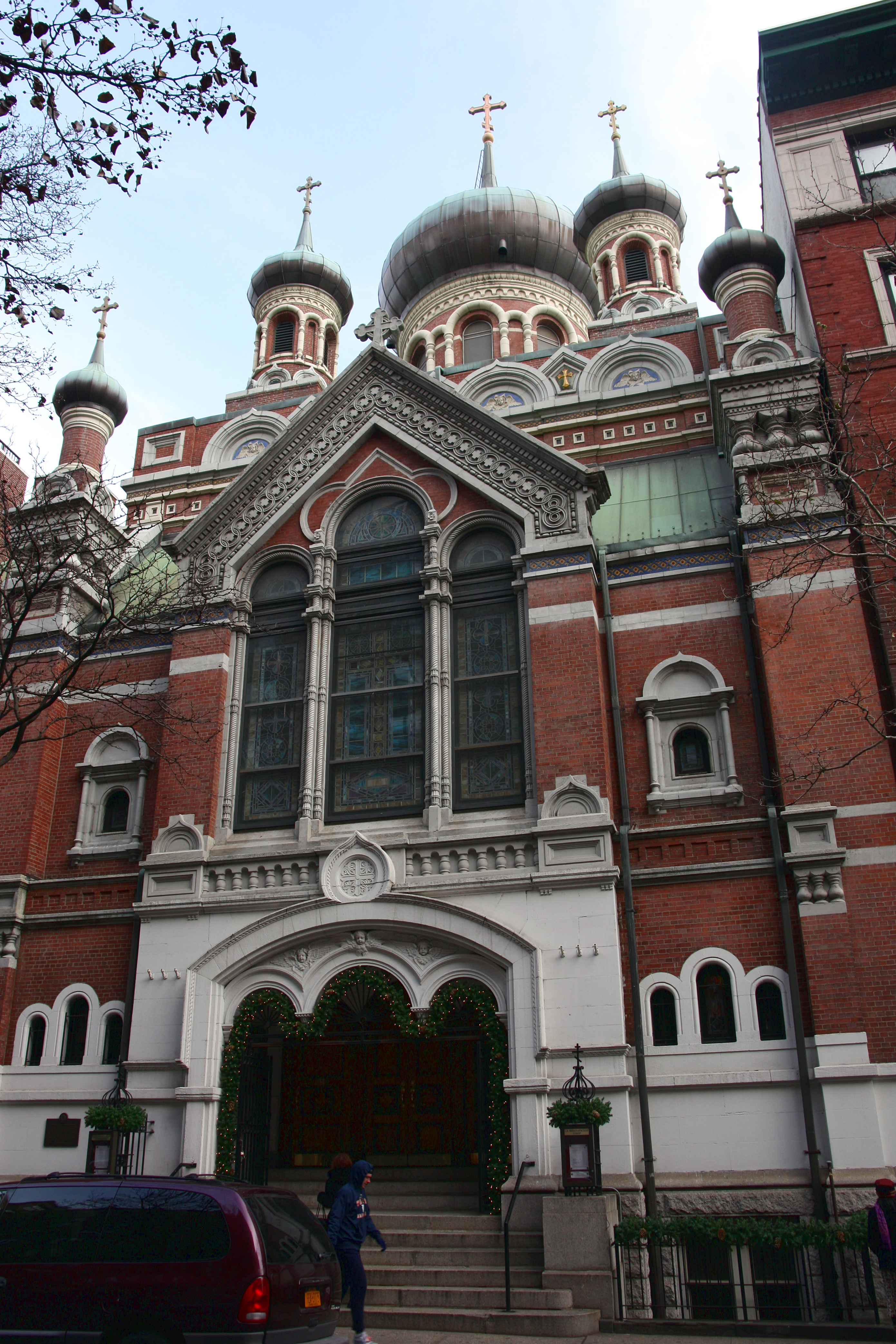 St. Nicholas Russian Orthodox Cathedral in New York City